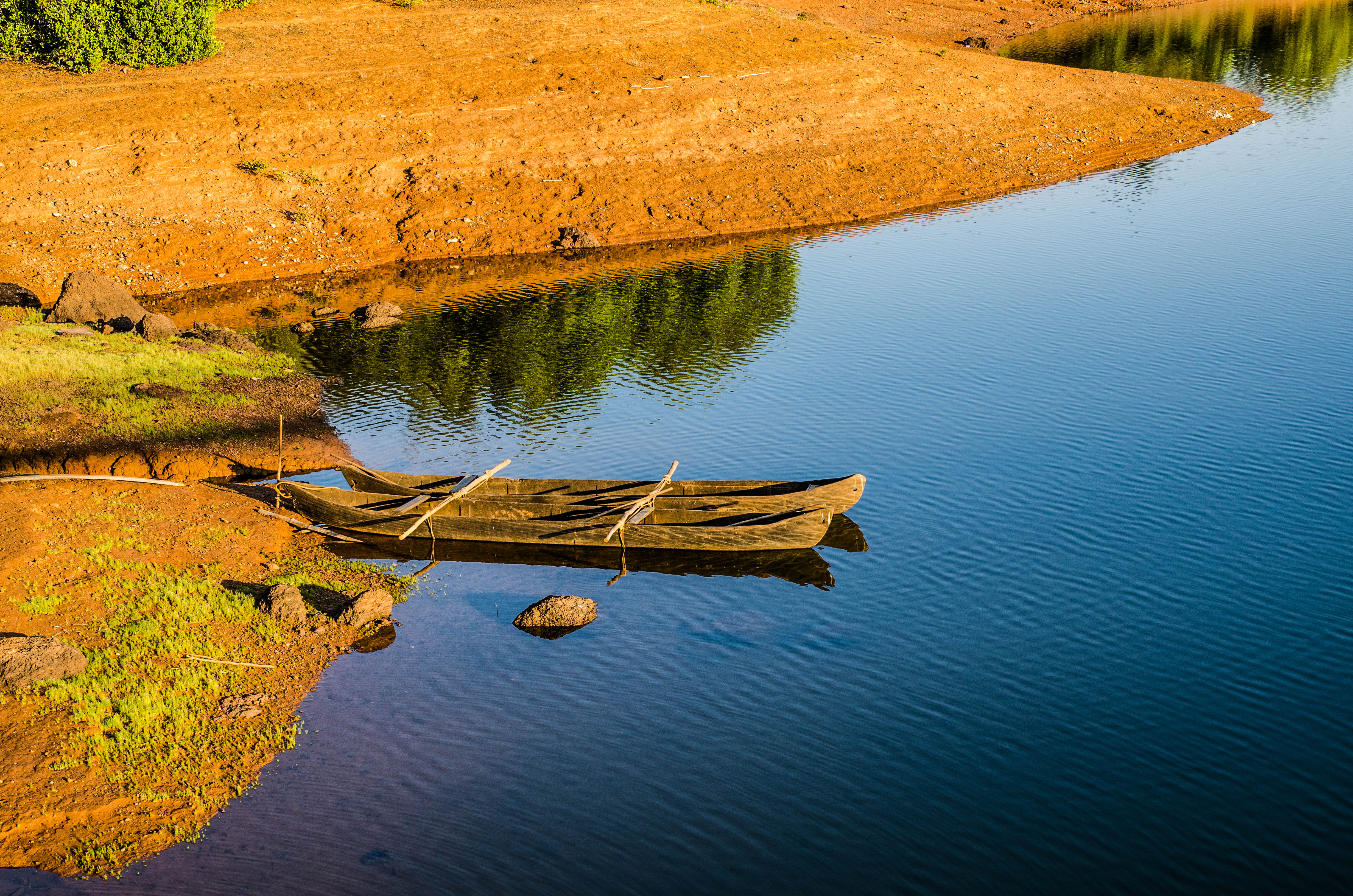 Sharavathi s a river which originates and flows entirely within the state of Karnataka in India. It is one of the few westward flowing rivers of India and a major part of the river basin lies in the Western Ghats. The famous Jog Falls are formed by this river. The river itself and the region around it are rich in biodiversity and are home to many rare species of flora and fauna.